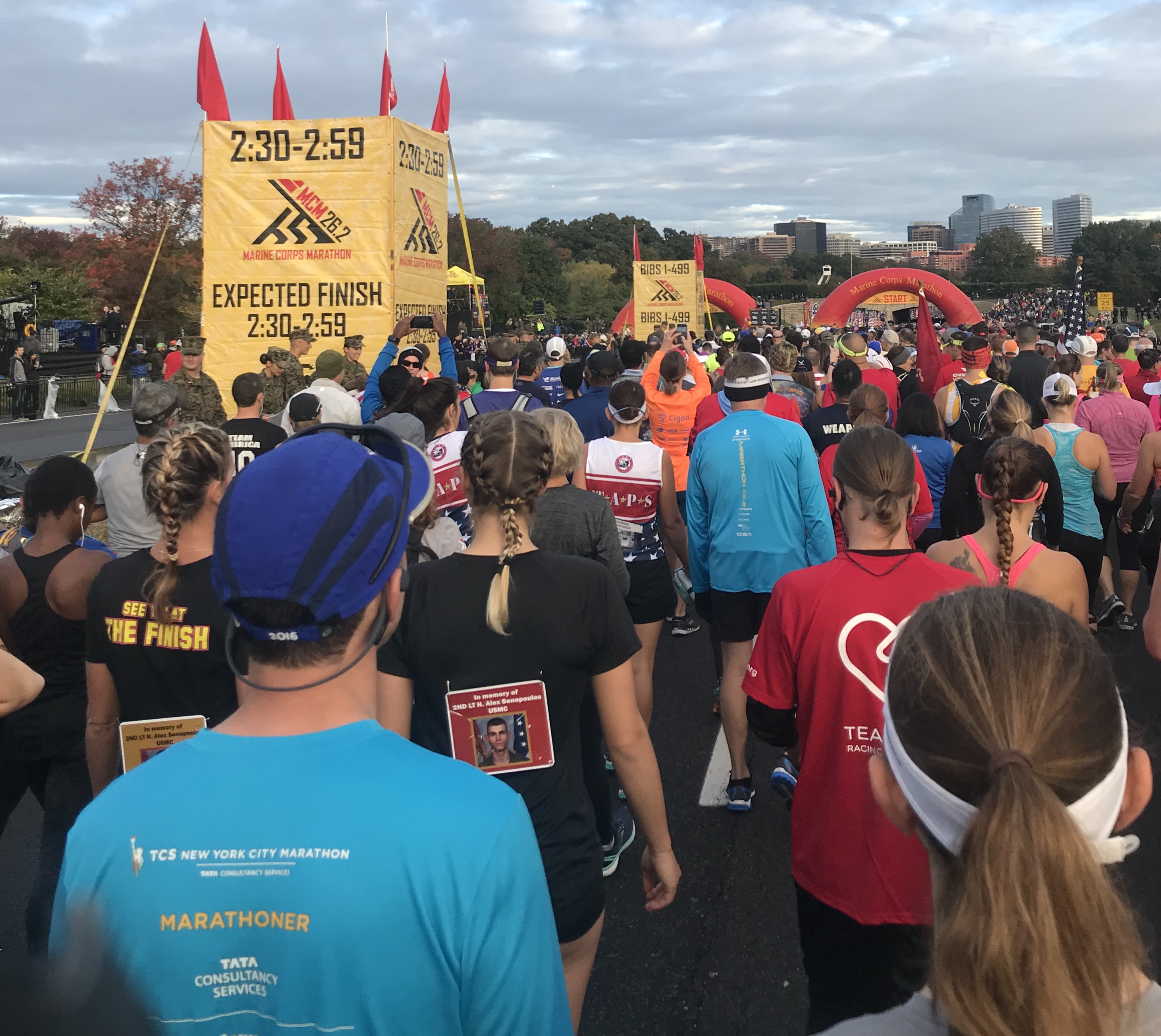 Picture of start line and corrals at beginning of 2018 Marine Corp Marathon